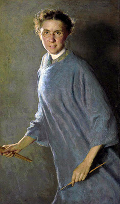 Self portrait of Margaret Foster Richardson, original in the Pennsylvania Academy of the Fine Arts.